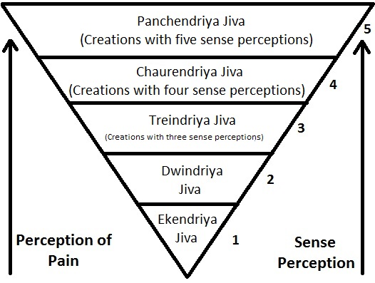 An illustration indicating why Jains are vegetarians. Due to the practice of the value of Ahinsa (non-violence), Jains attempt to avoid inflicting of pain in their diet practices. Increase in the number of senses may contribute to increase in sensory acuity, and thus Jains prefer eating foods made from creations that have a lesser number of sense organs (such as plant-based foods).